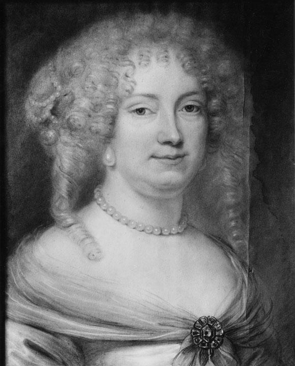 Christina Catharina De la Gardie (1632-1704)